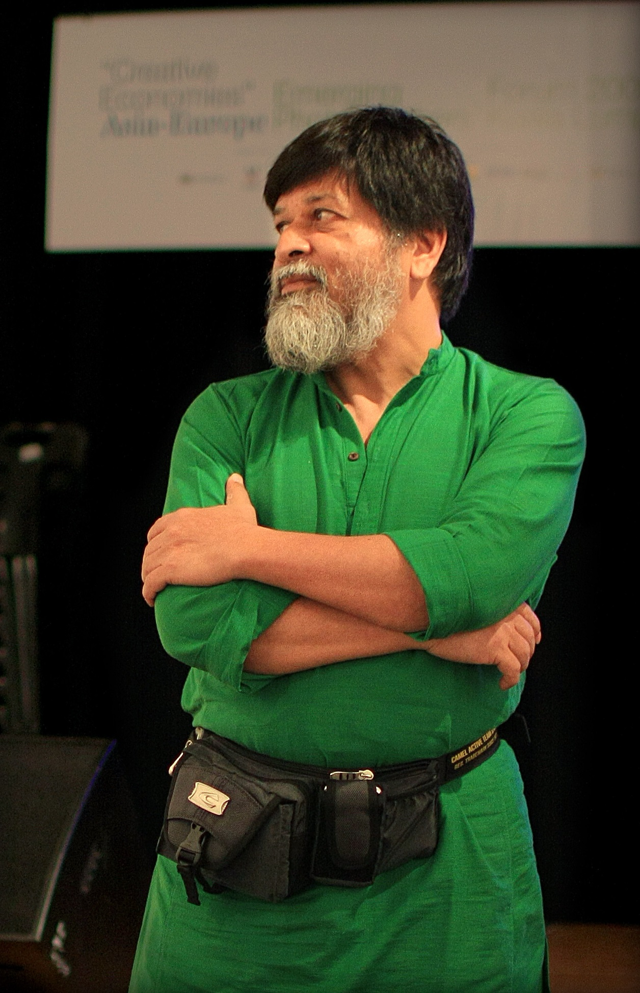 Dr. Shahidul Alam, after his talk on “The Use of Digital Medium in Journalism and Documentary Photography Today” at the Asia-Europe Emerging Photographers’ Forum (ASEF) May 16, 2009 @ Central Market Annex, KL, Malaysia